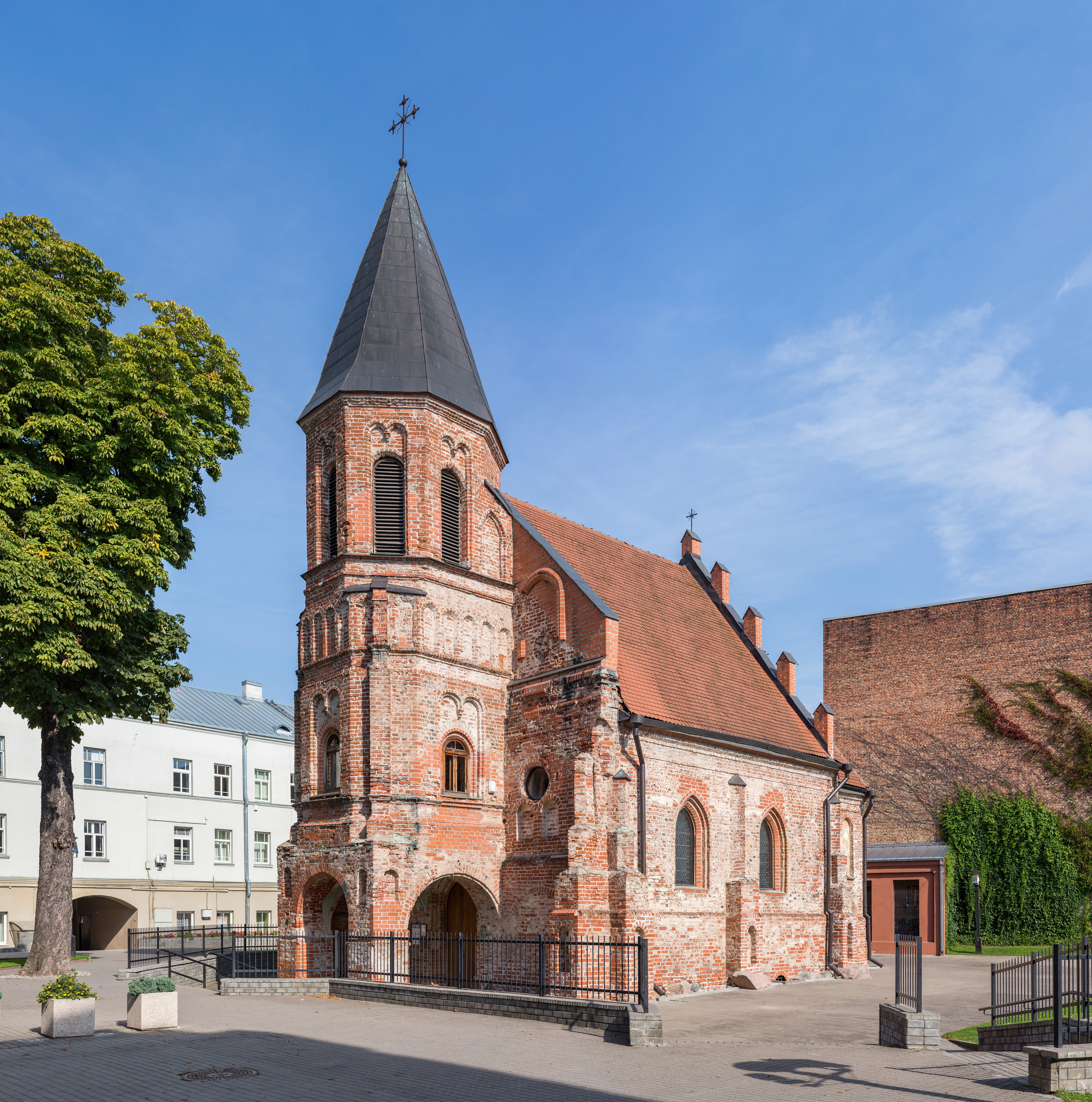 Church of St Gertrude, Kaunas, Lithania.